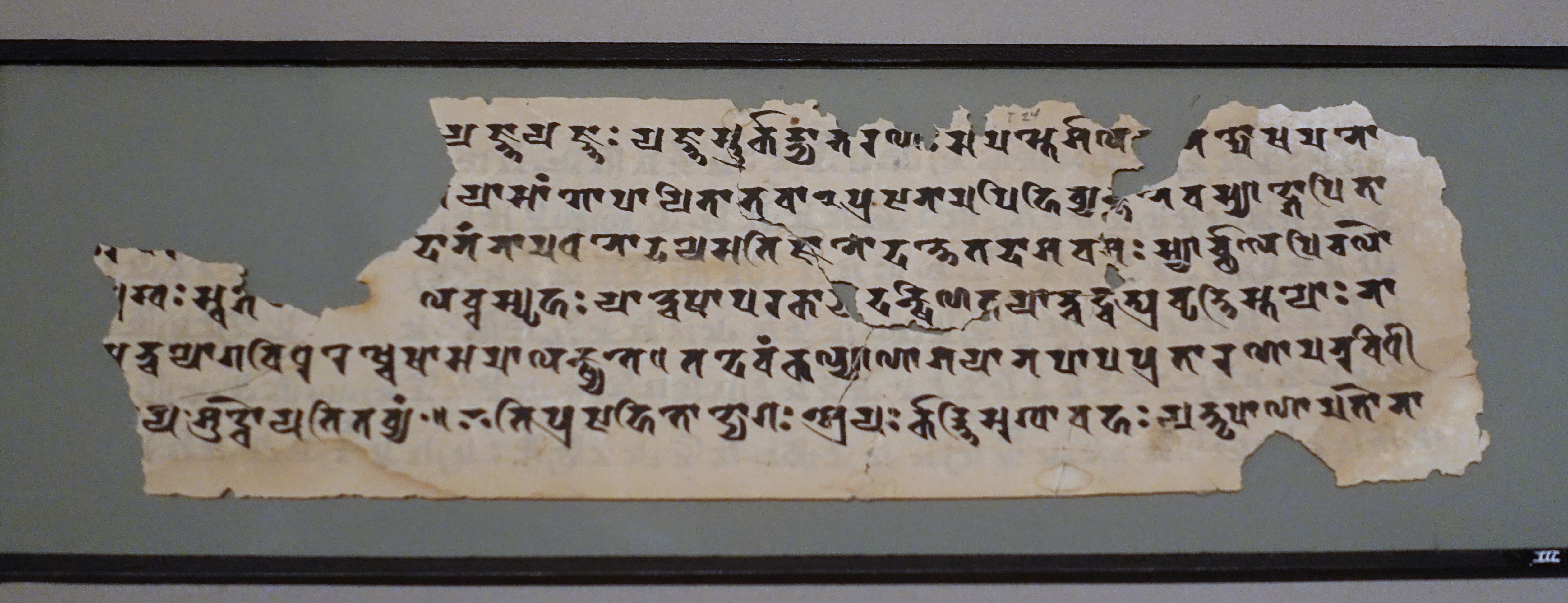 Exhibit in the Ethnological Museum, Berlin, Germany.